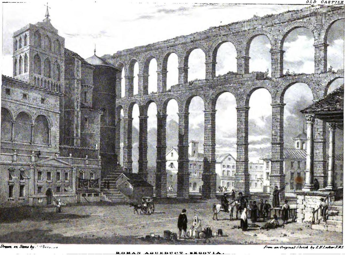 Roman Aqueduct, Segovia (work "Views in Spain")